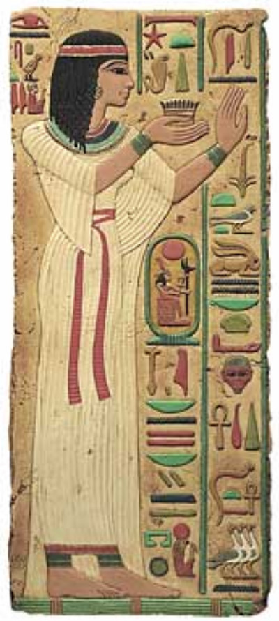 Displays an image featuring a priest(Nesu-ur.t Unu) give King Ramses II an offer.